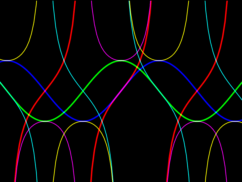 An image showing the trigonometric functions on 2d space: Green - Cosine, Blue - Sine, Red - Tangent, Yellow - Cosecant, Magenta - Secant, Cyan - Cotangent